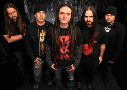 Photo by Ernie Manrique